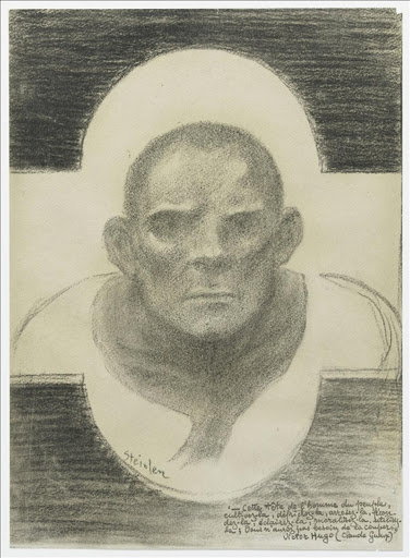 Steinlen en 1902 répond à la commande de Paul Meurice, en illustrant Claude Gueux, condamné à mort, dont l'histoire a été reprise par Victor Hugo dans son roman éponyme. L'artiste choisit de montrer la tête de ce dernier à travers la lunette de la guillotine, accompagnée d'une citation d'Hugo : « Cette tête de l’homme du peuple, cultivez-la, défrichez-la, arrosez-la, fécondez-la, éclairez-la, moralisez-la, utilisez-la ; vous n’aurez pas besoin de la couper ».